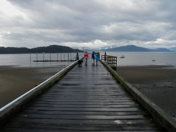 The dock is a central part of the economy and social life of Gustavus, Alaska. In the summer, whale watching trips and sport fishing vessels all arrive and depart from here. As the winter storms approach, the State of Alaska, which manages and owns the dock, tows the floating moorings to safe harbor.